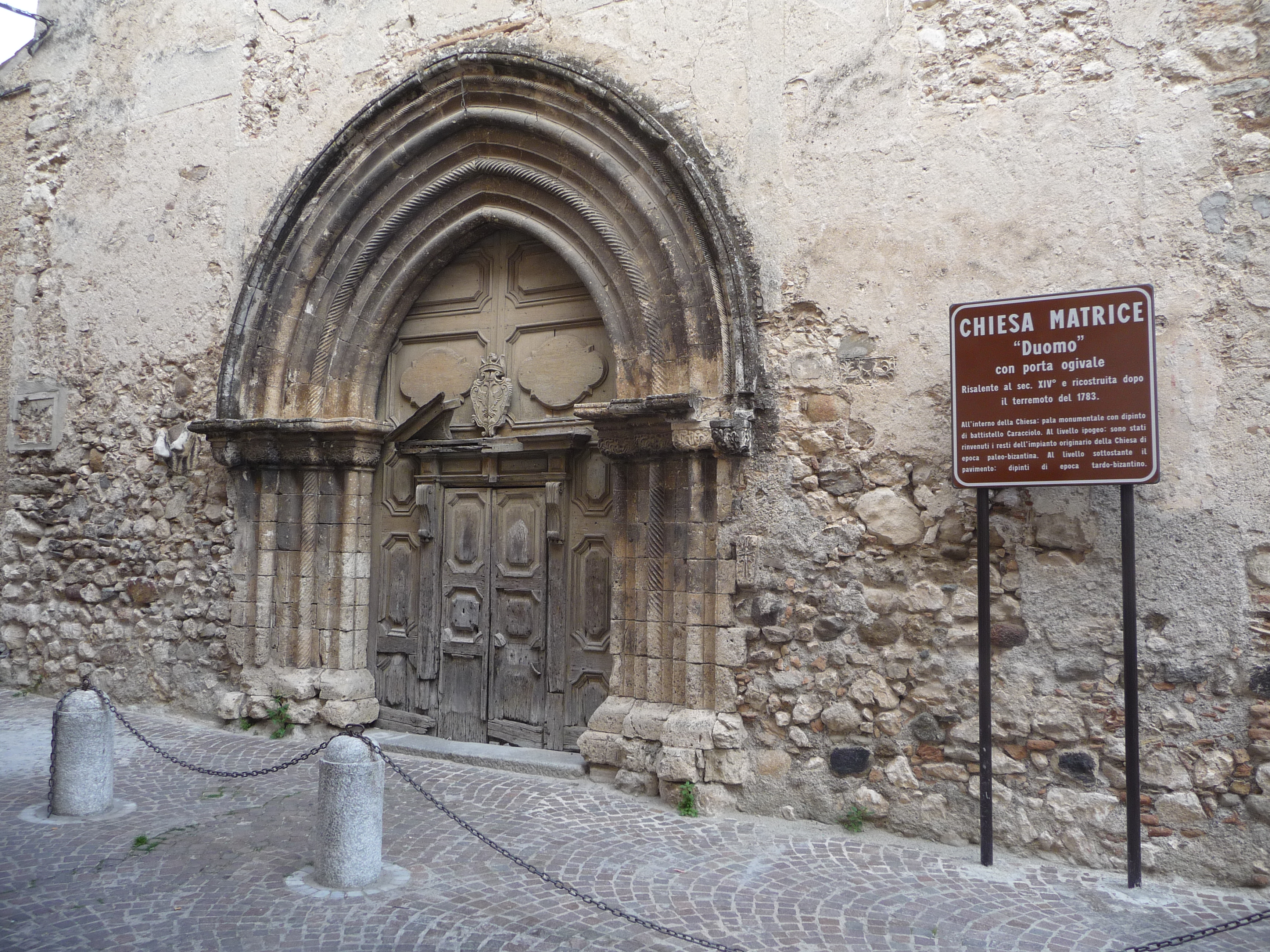 Church Matrice - Duomo